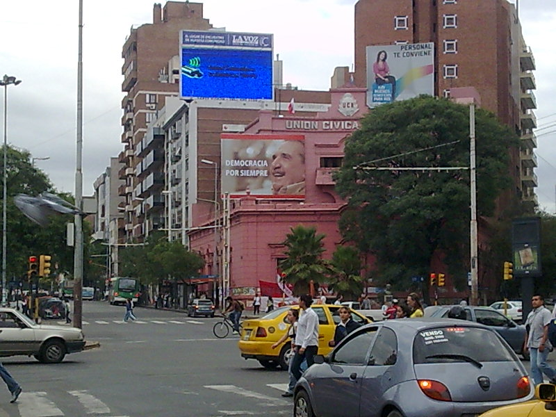 Poster commemorating the death of Raúl Alfonsín, former president of Argentina. House of Unión Cívica Radical (Radical Civic Union) party in Cordoba, Argentina.